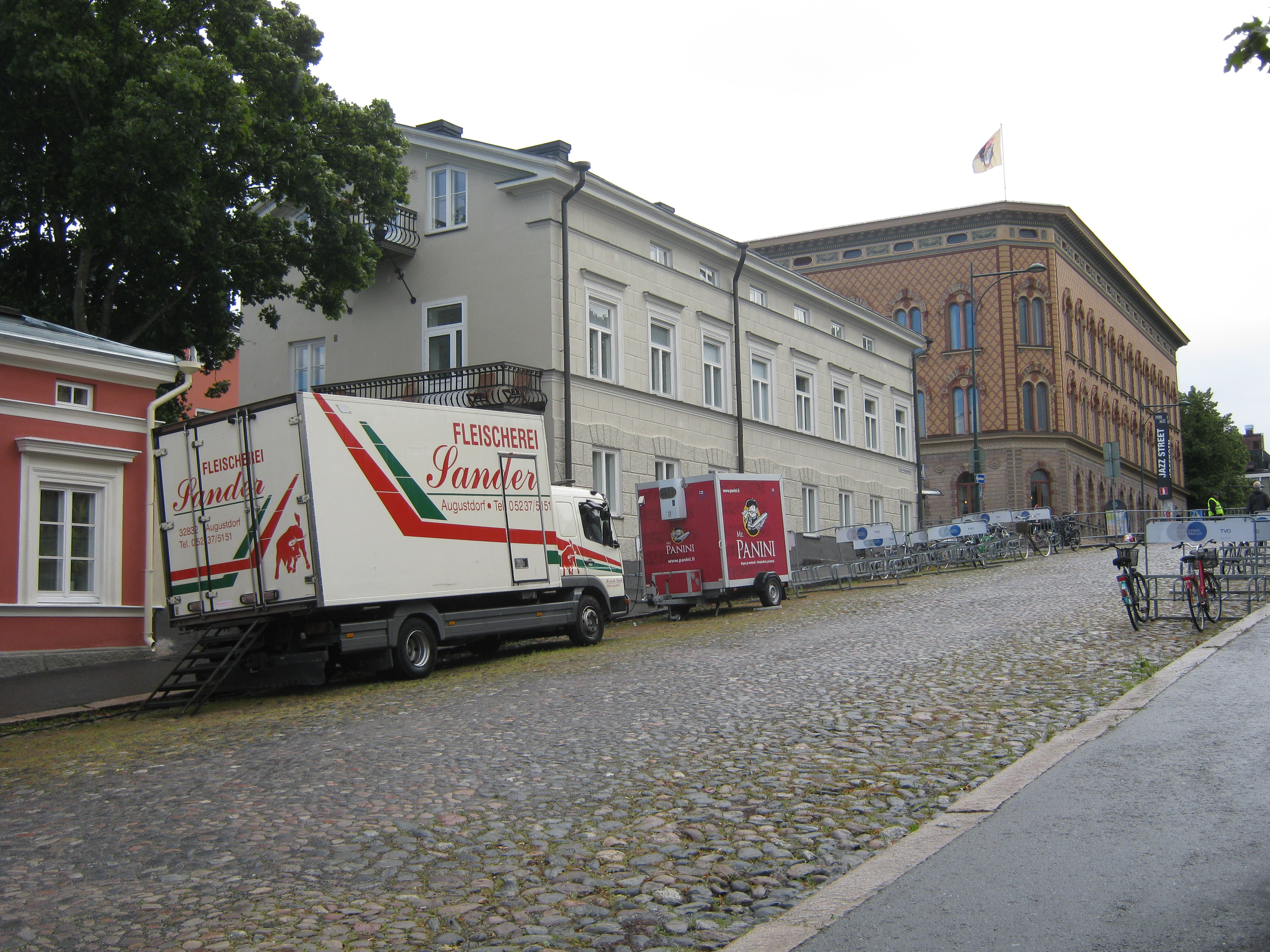 Selim Palmgren Street, Pori Finland.